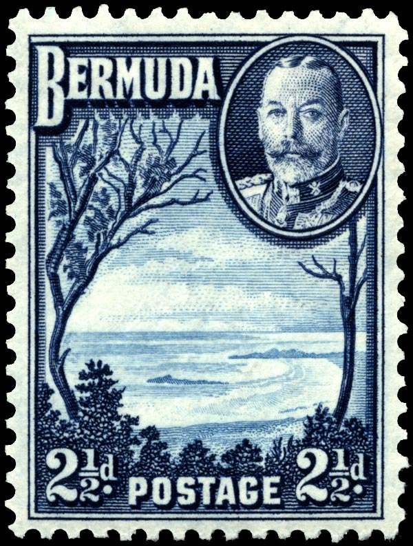 Bermuda 2 1/2-pence stamp of 1936